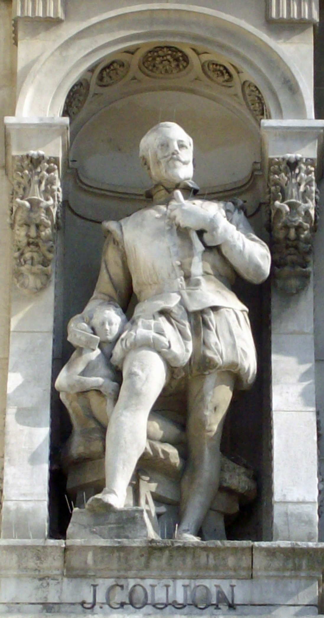 Statue of Jean Goujon on the City Hall in Paris